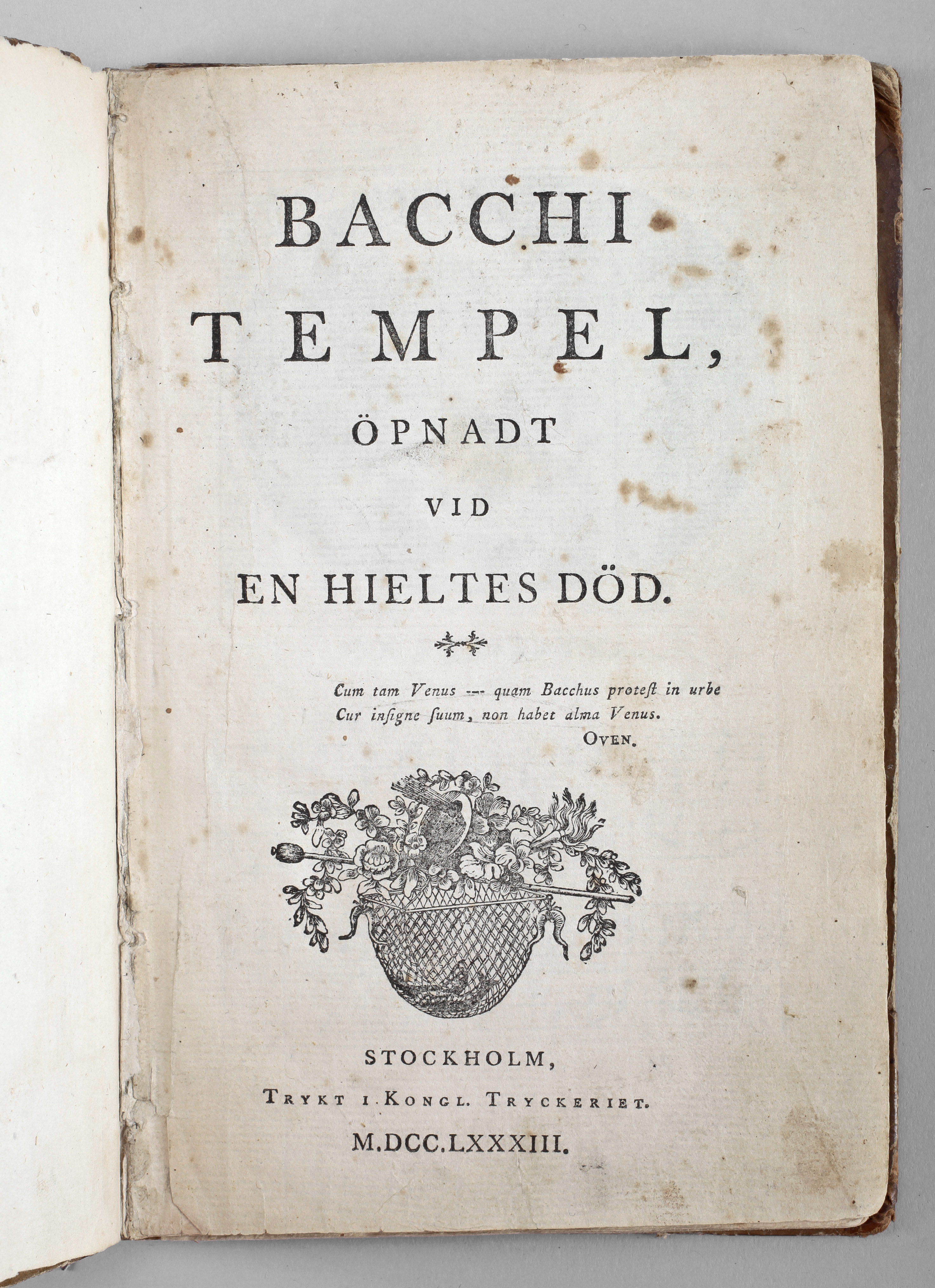 Bacchi Tempel title page, 1783. Songbook by Carl Michael Bellman, illustrated by Elias Martin